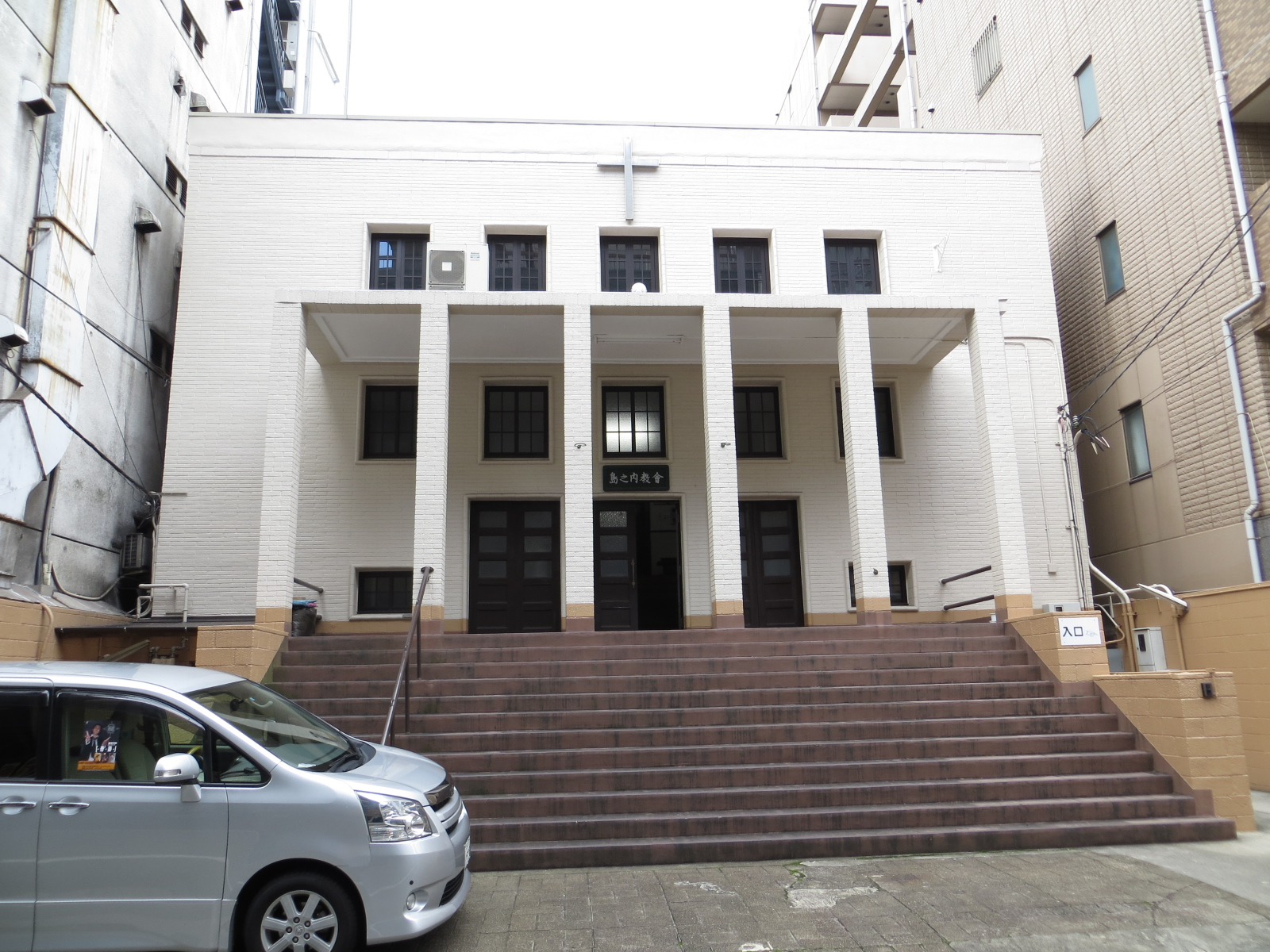 UCCJ Shimanouchi Church, Chūō-ku, Osaka.